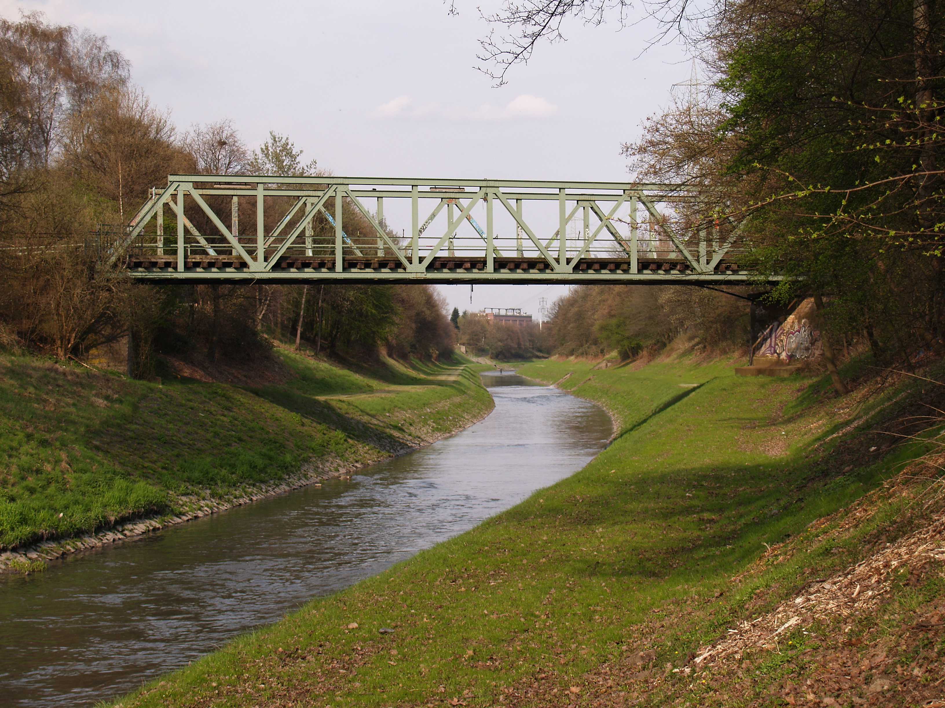 Emscher river at Herne and Recklinghausen (Germany). In the background the electricity-museum.